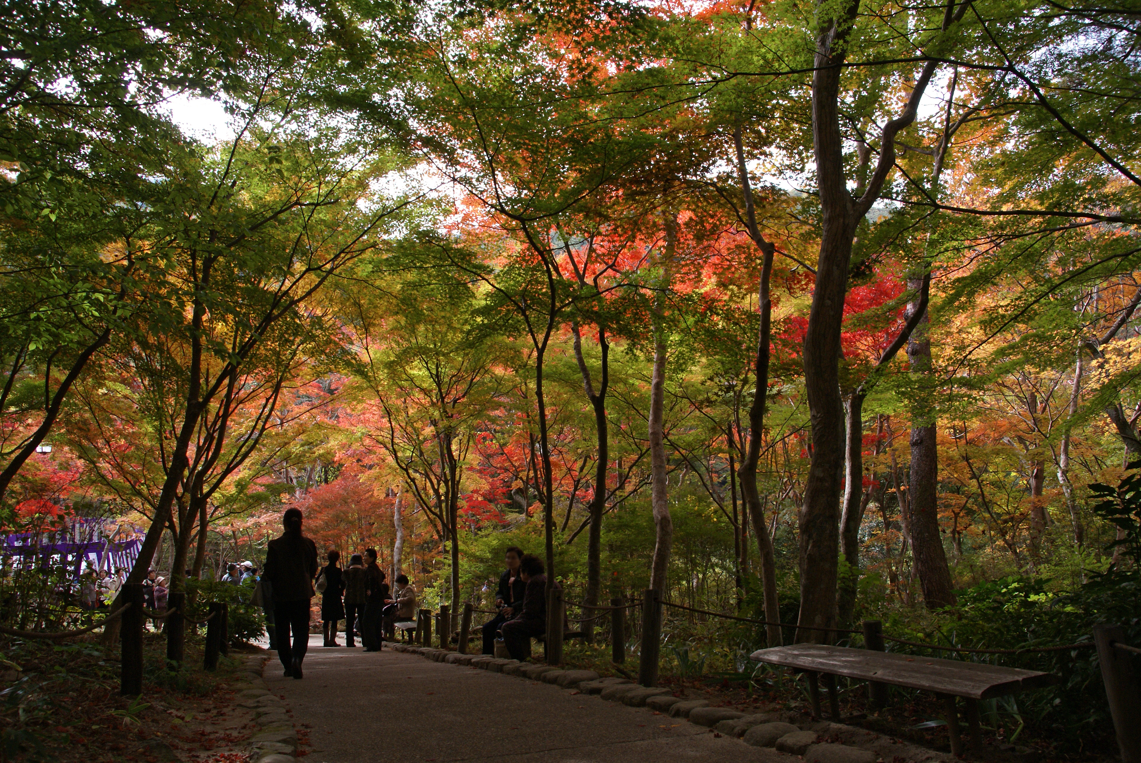 Zuihoji Park of Arima onsen in Kobe, Hyogo prefecture, Japan